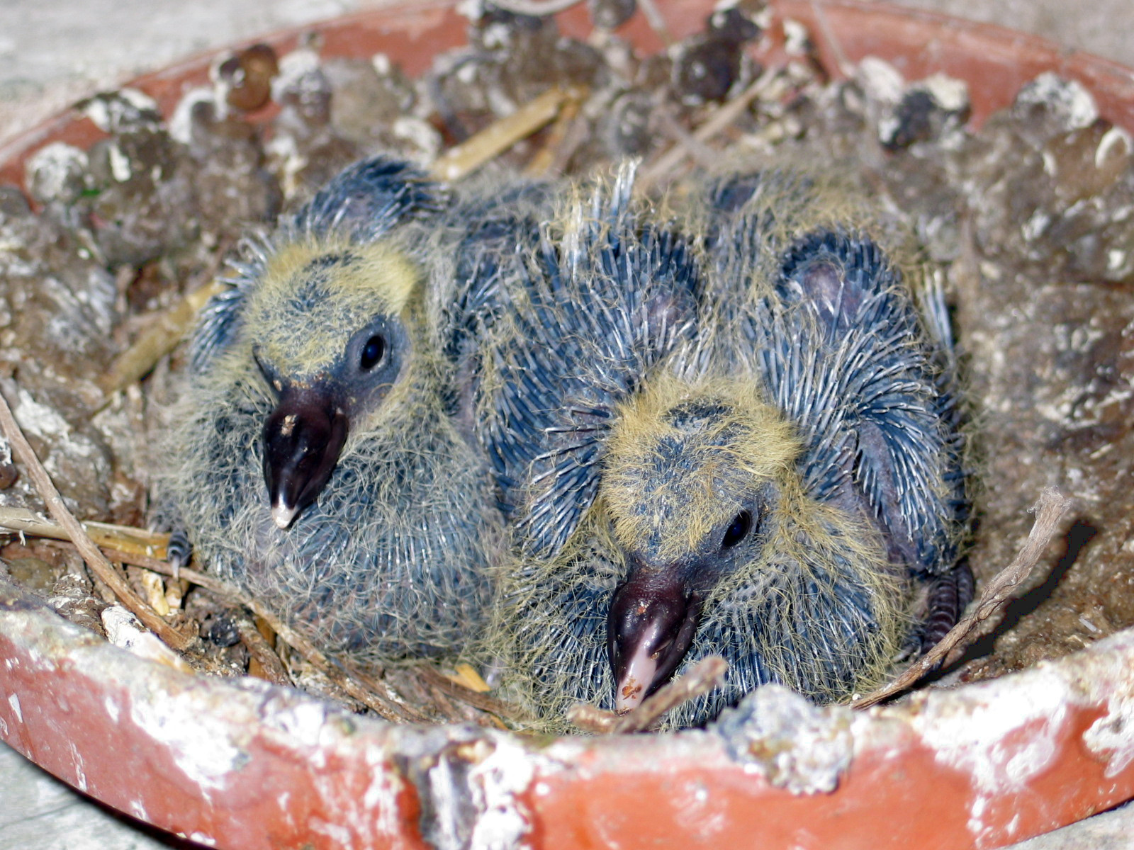 Jung homing pigeons, about 9 days old